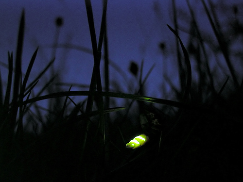 A female glow worm, Lampyris noctiluca, in grass in a field in Princes Risborough, Buckinghamshire